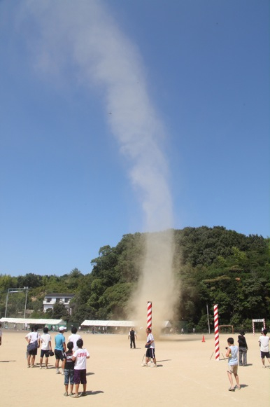 Whirlwind example